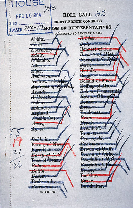 Final roll call vote in the U.S. House of Representatives on H.R. 7152 (the Civil Rights Act of 1964). Page 1 of voting record.